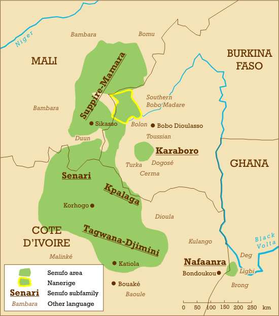 Map showing where the Nanerige language is spoken.